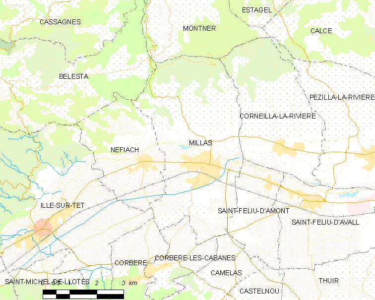 Map of French municipality